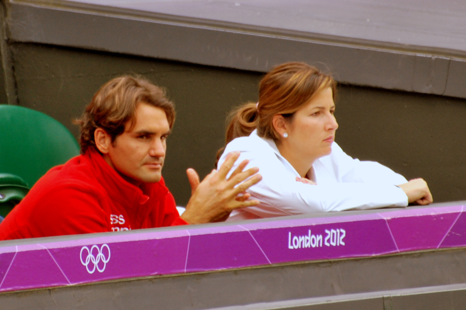 Watching Stanislas Wawrinka take on Andy Murray at the Olympic Games.